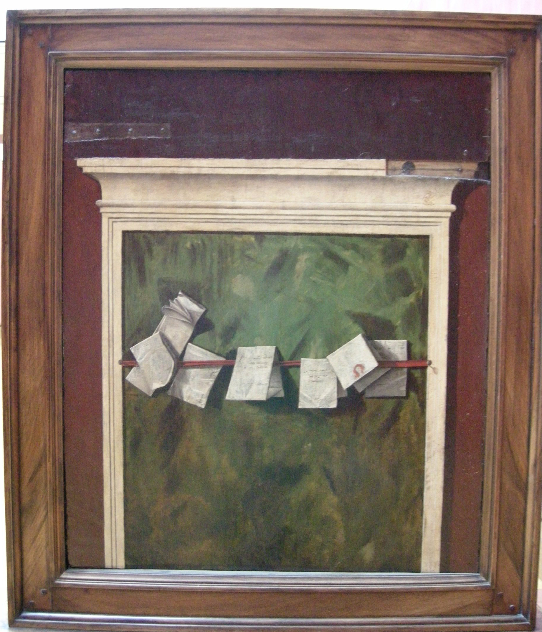 Hunting on the Lagoon, oil on panel painting by Vittore Carpaccio, c. 1490-95, Getty Center